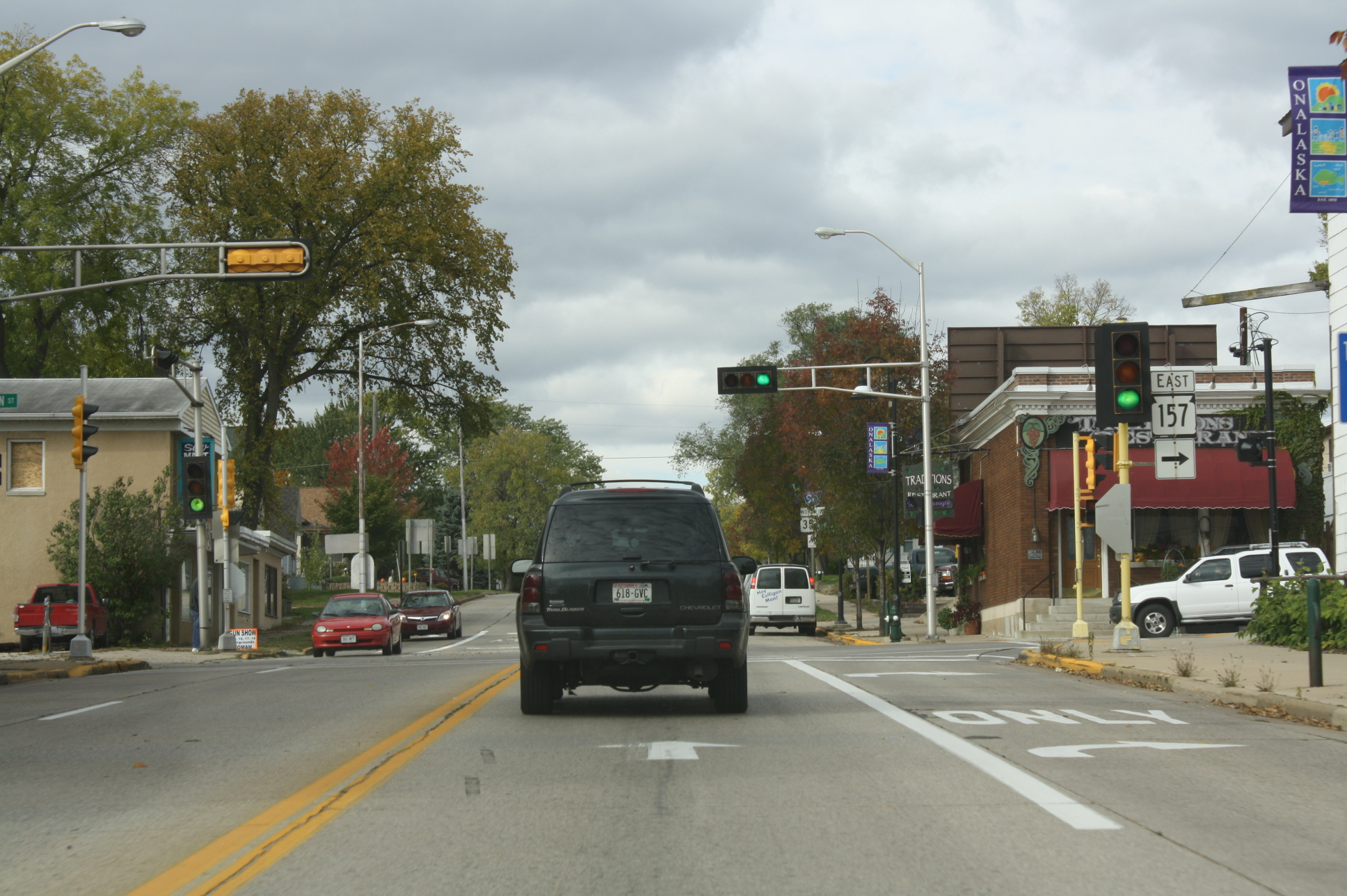 Looking north at the western terminus of Wisconsin Highway 157 in Onalaska, Wisconsin.